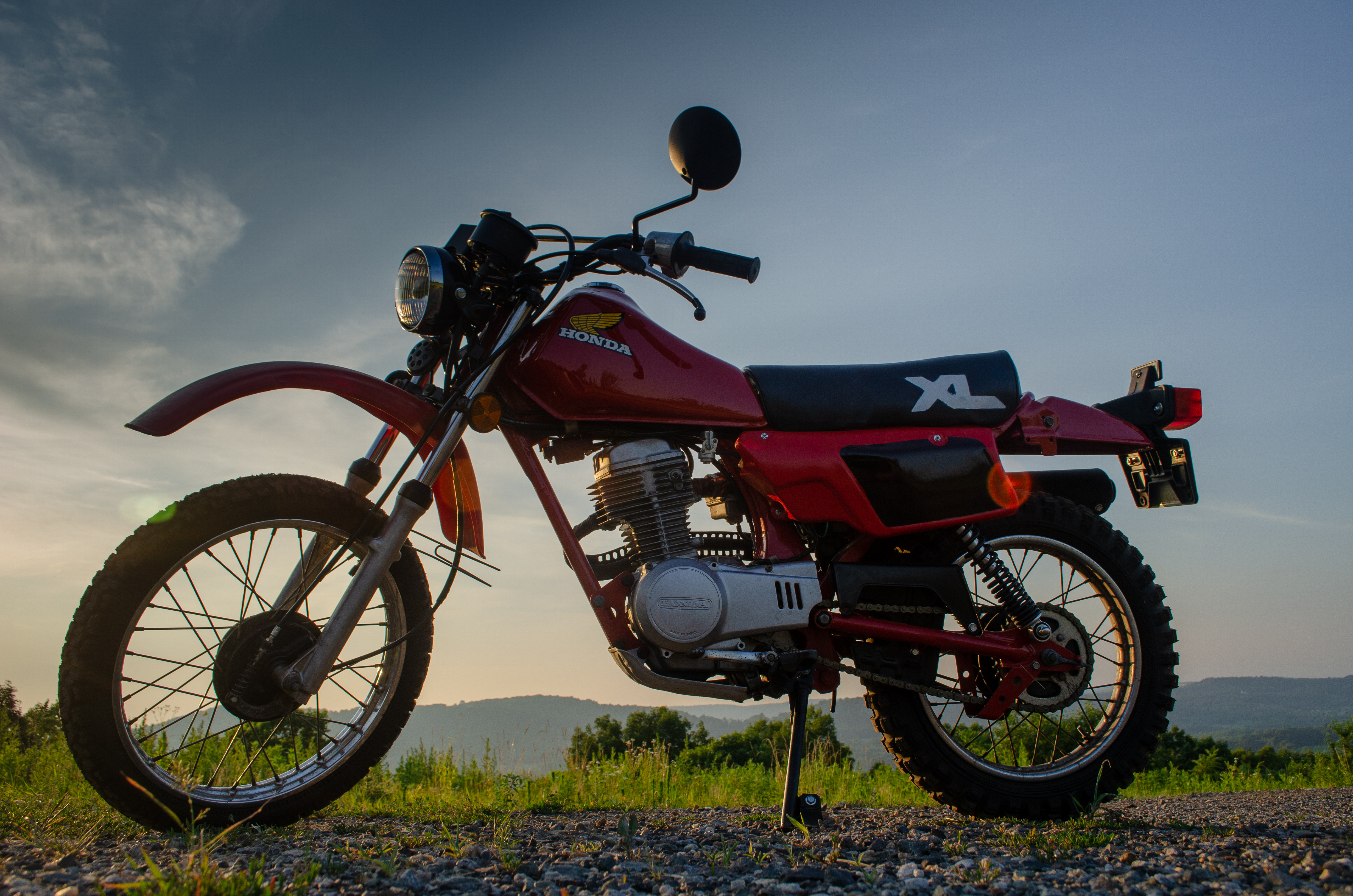 A 1984 Honda XL80S Enduro Motorcycle in a field.